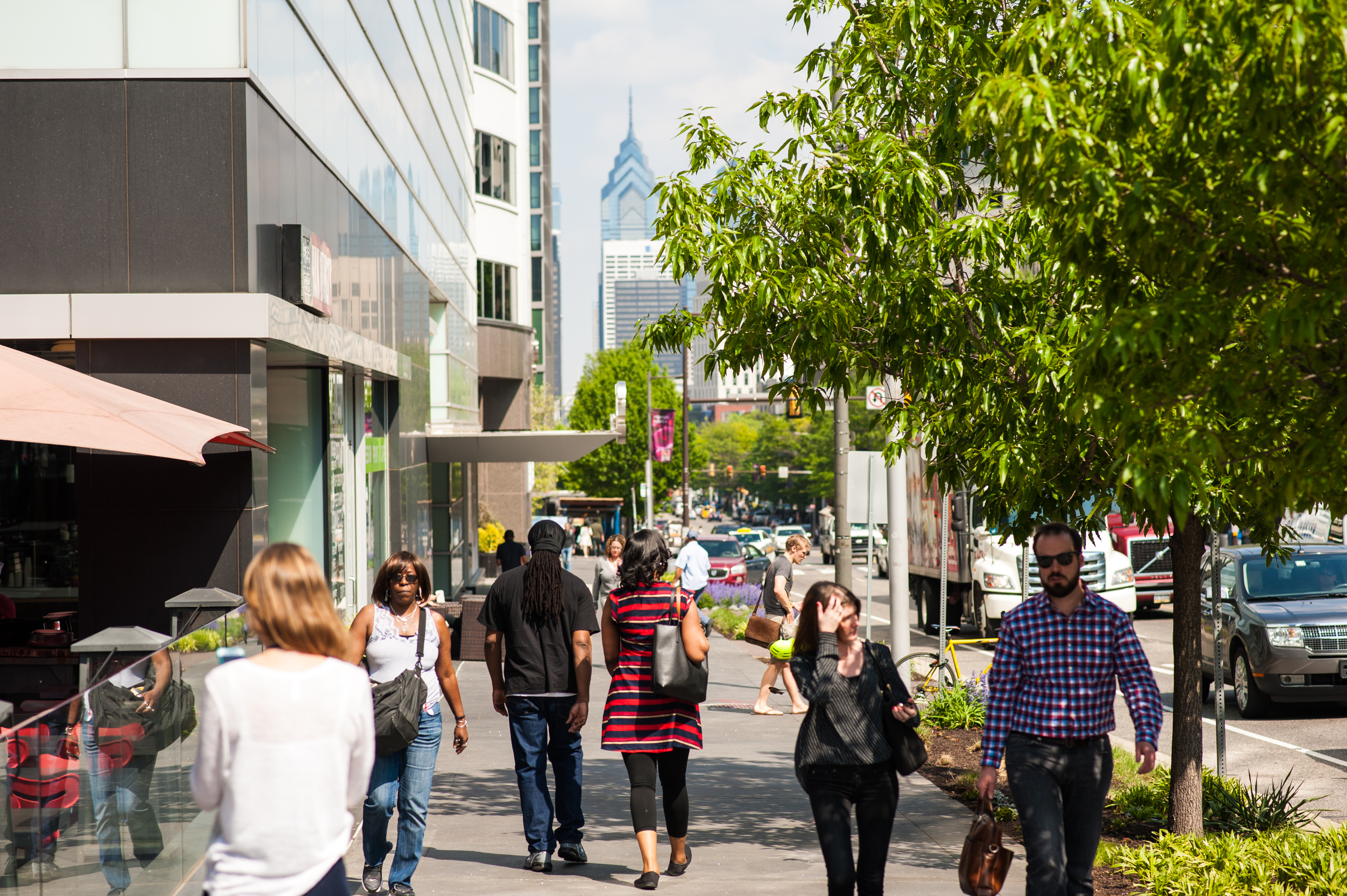 University City Science Center streetscape